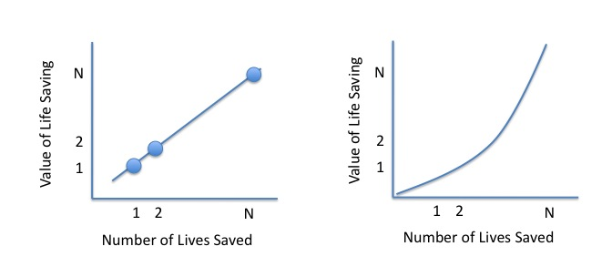 this is a normative graph of the value of saving a life as derived from Slovic's article on Psychic Numbing